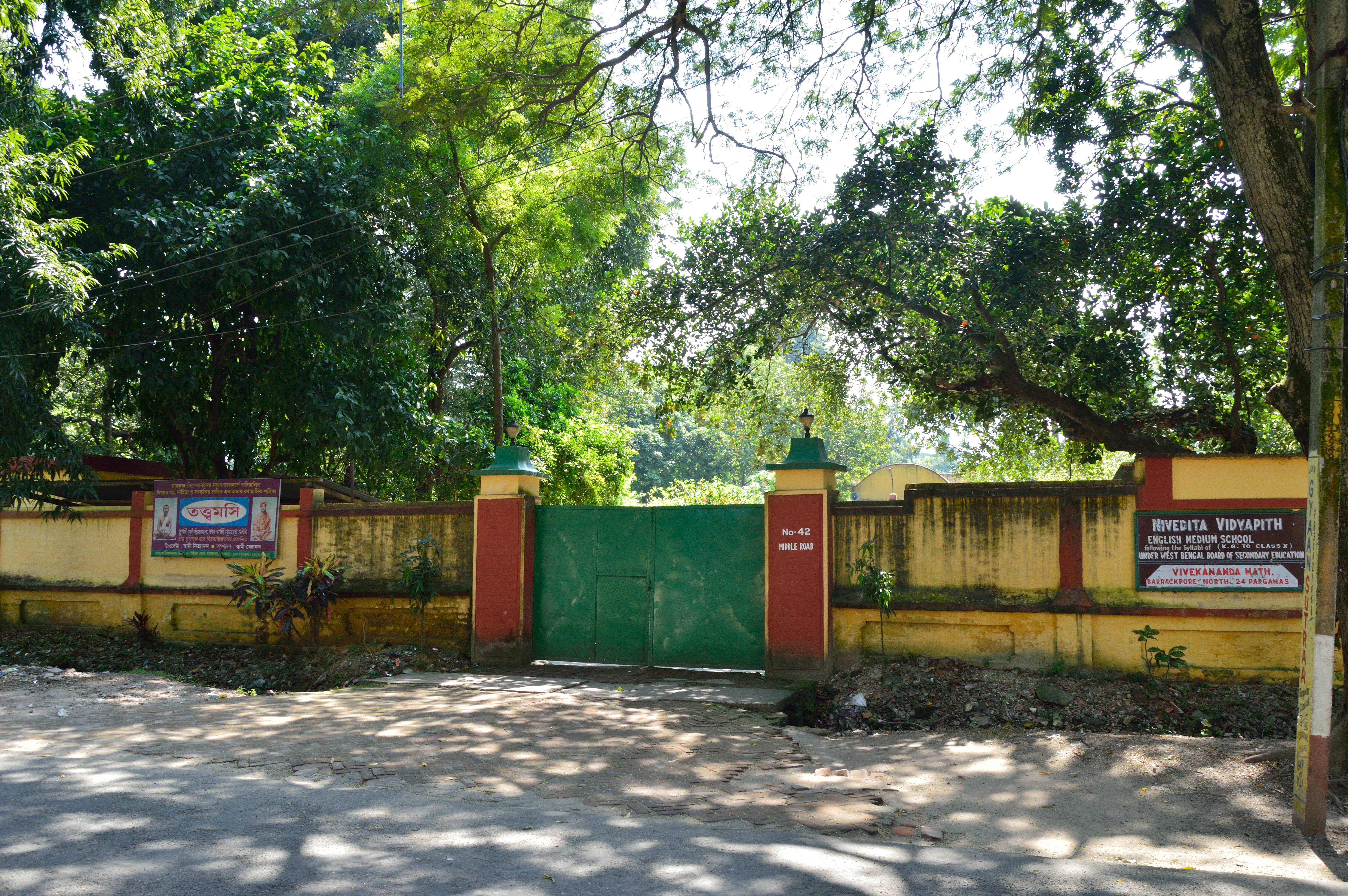 Photographed in Greater Kolkata.